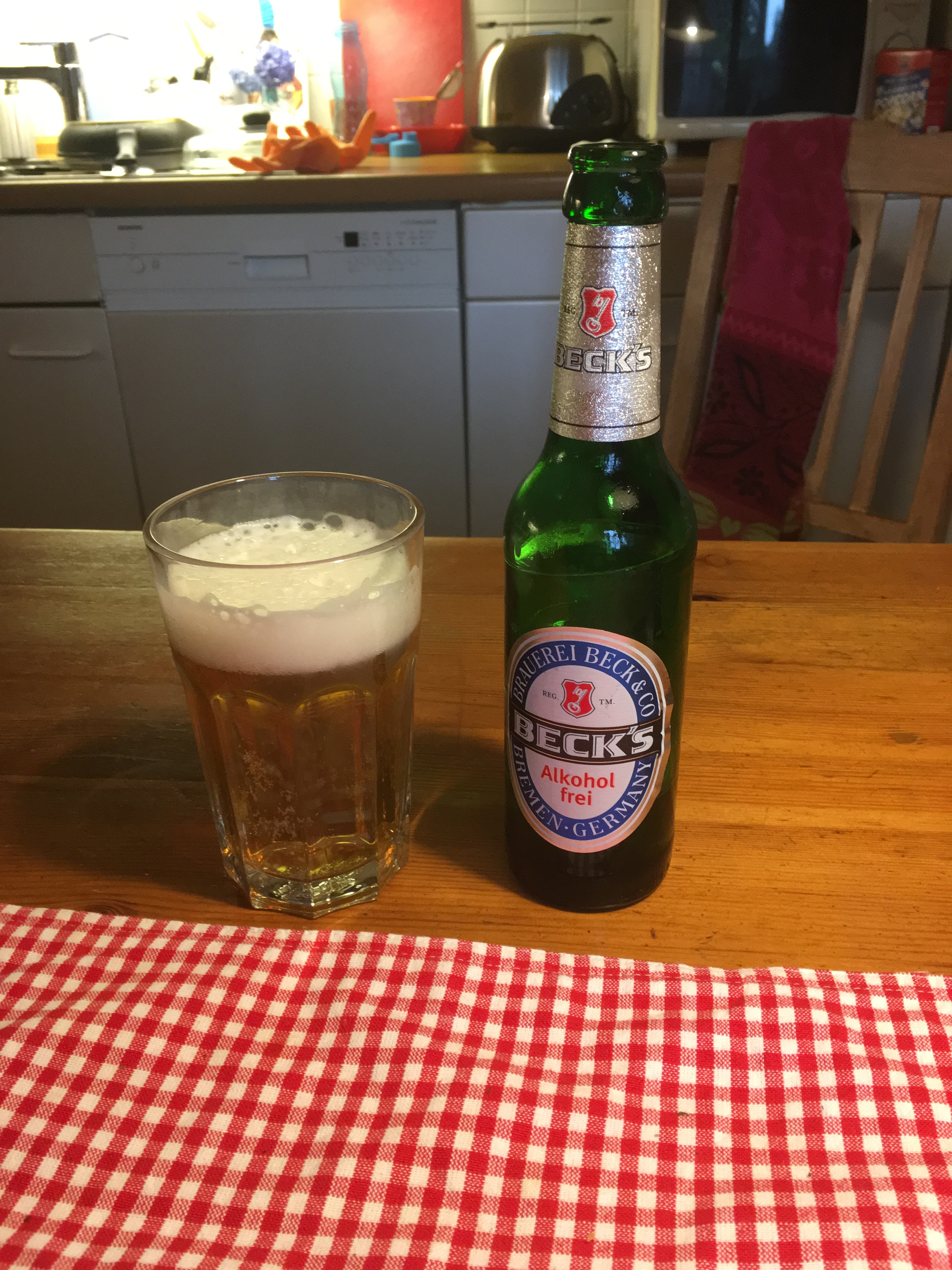 Alcohol free beer